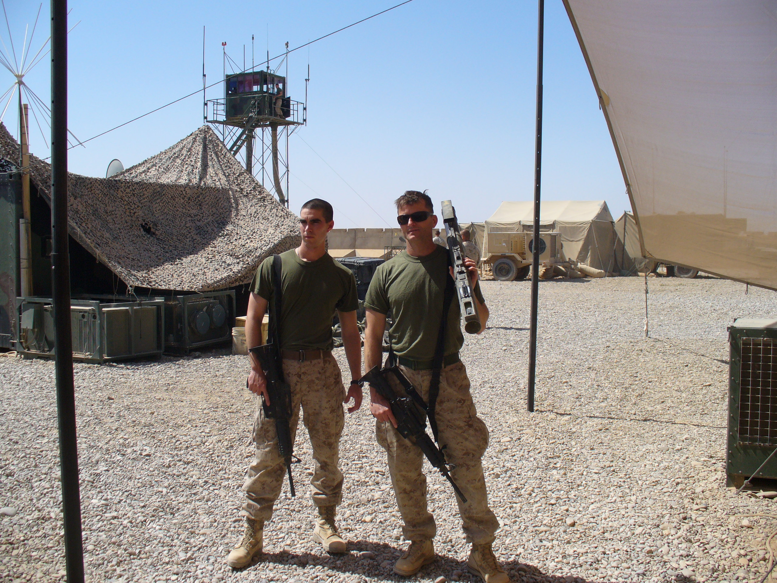 Officers in Command of the Air Traffic Control elements of Helmand Province during Operation Moshtarak.